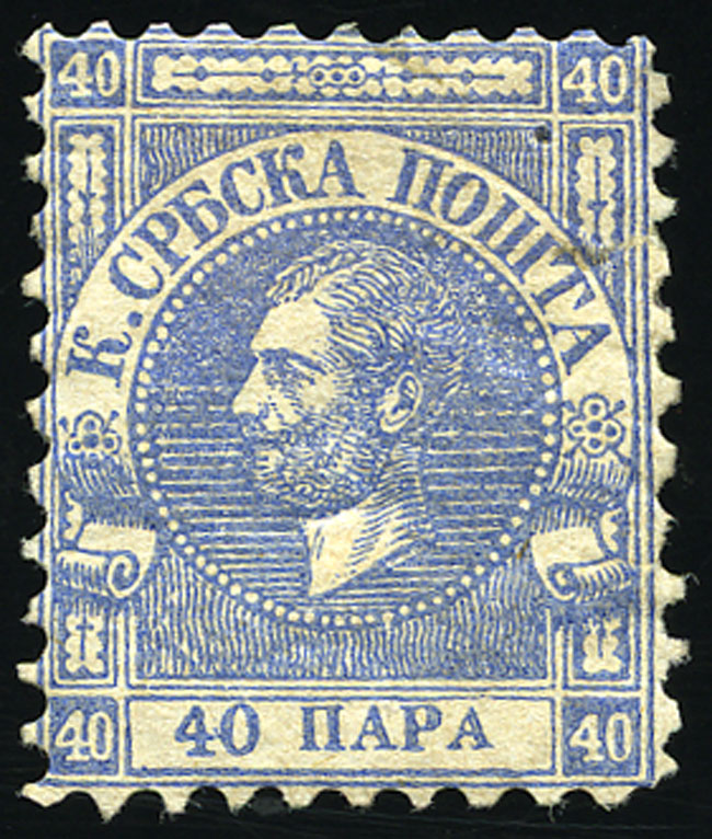 Stamp of Serbia, Mihailo Obrenović III, 1866, 40 paras.